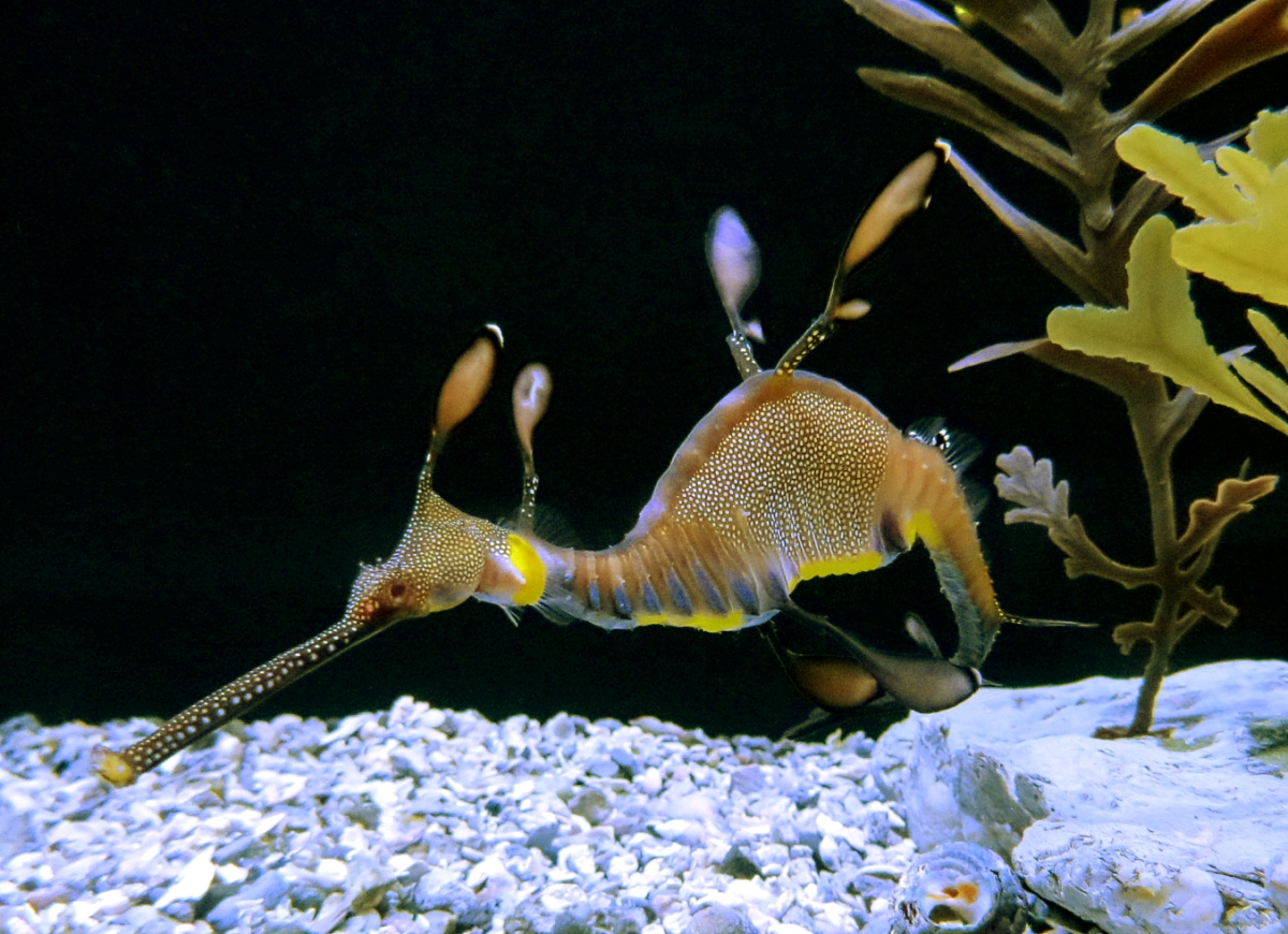 weedy sea dragon, Scrips Birch Aquarium, La Jolla, California / 2012